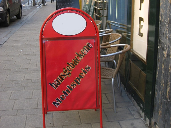 Examples for differing vocabulary in Austrian Standard German The sign says "homemade pastries", which are called "Mehlspeis(en)" in Austria and not "Süßspeisen". The singular form as pars pro totum sounds even more Austrian, like in this example. (The company's logo was manually removed from the photo)